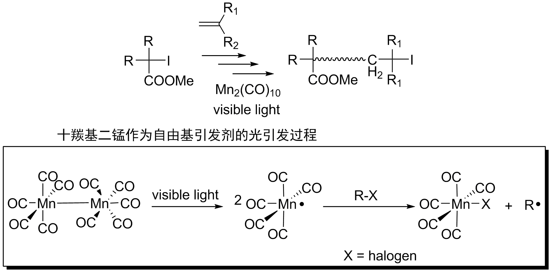 Controlled Radical Polymerization of Monomers with R-I/Mn2(CO)10 with R-I/Mn2(CO)10